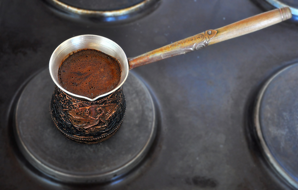 Traditional Armenian coffee pot 'Srjep' (Սրճեփ)